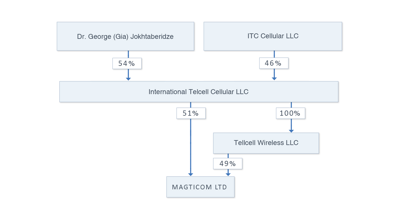 MagtiCom ownership